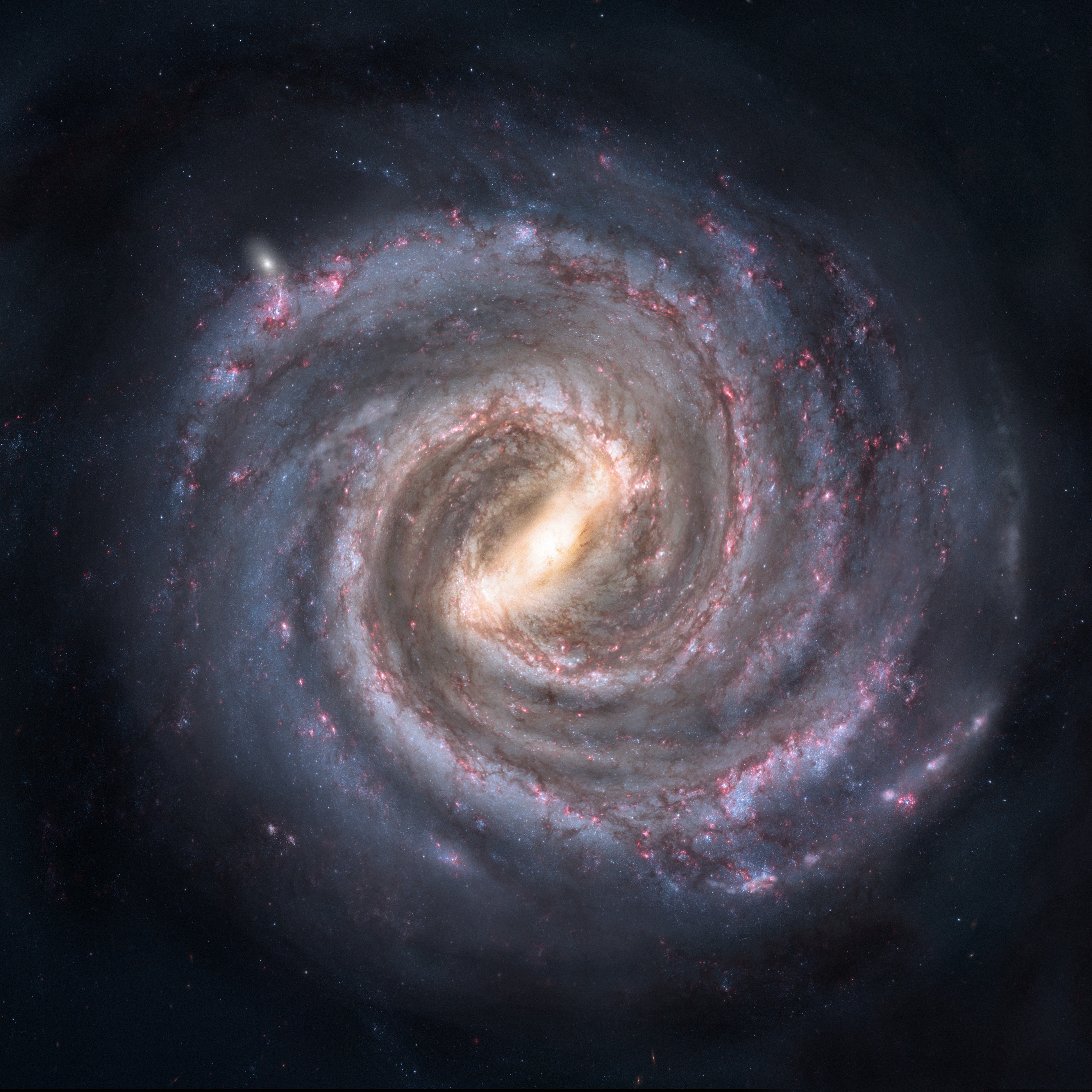 Artist's conception of the Milky Way galaxy.